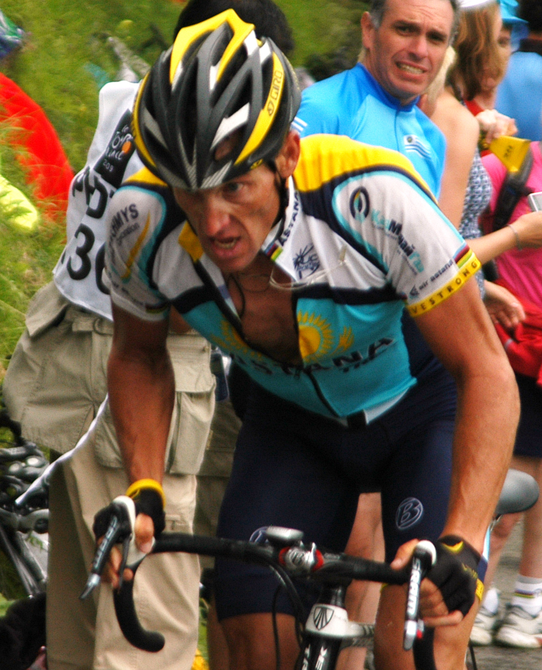 Lance Armstrong (USA) at stage 17 of the 2009 Tour de France on the Col de la Colombière.